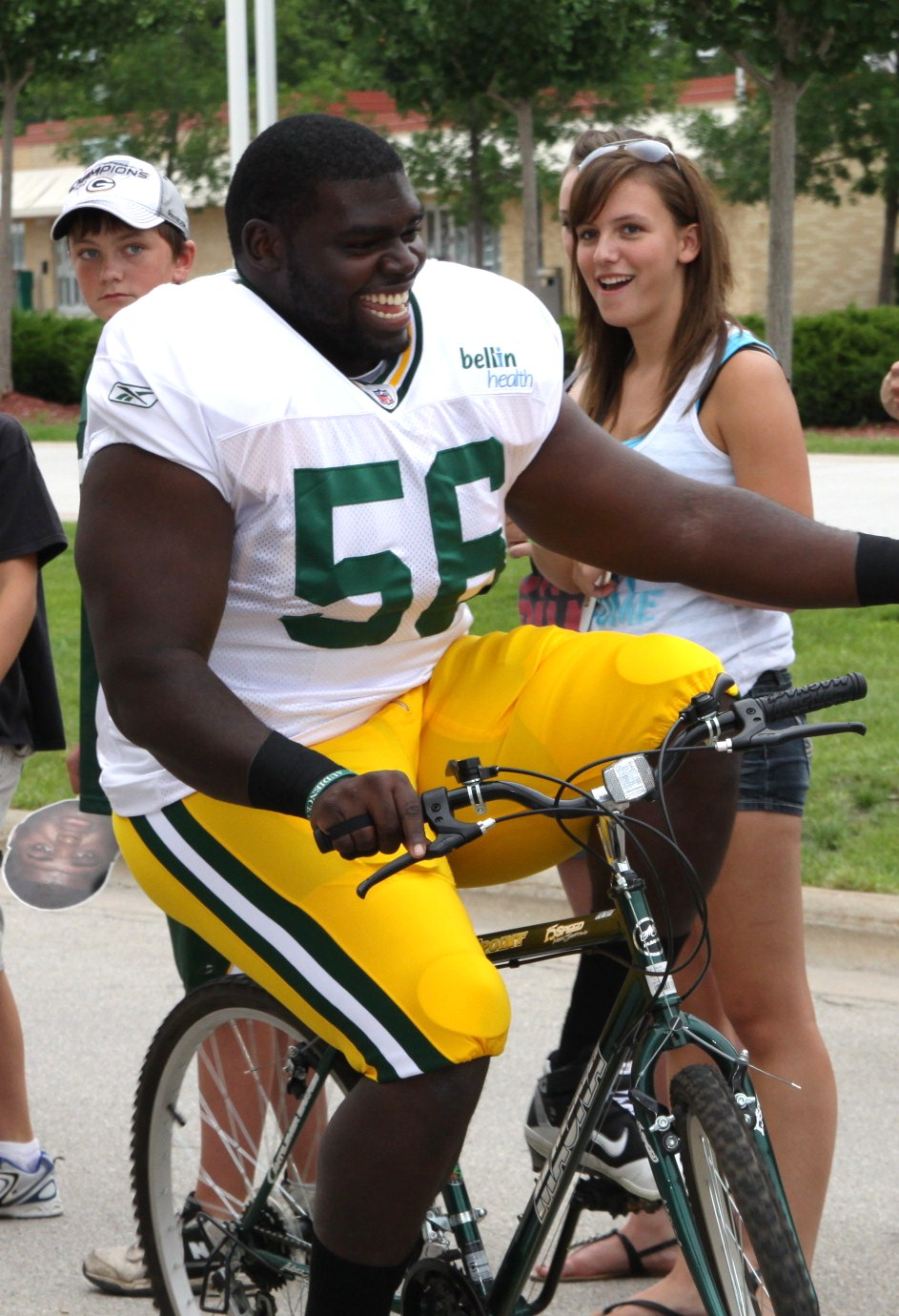 Green Bay Packers Center Sampson Genus, riding a fan's bicycle at pre-season training camp, August 1, 2011, Green Bay WI